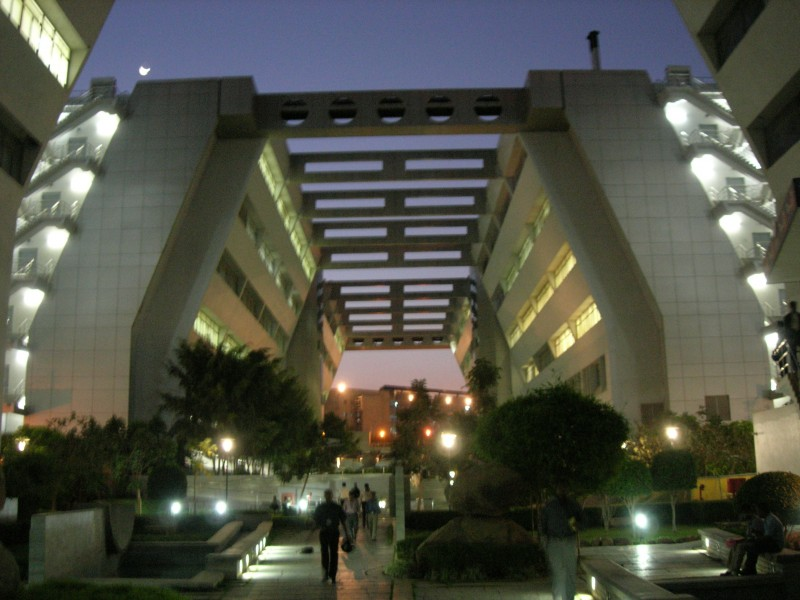 Cybergateway Hitec City, Hyderabad